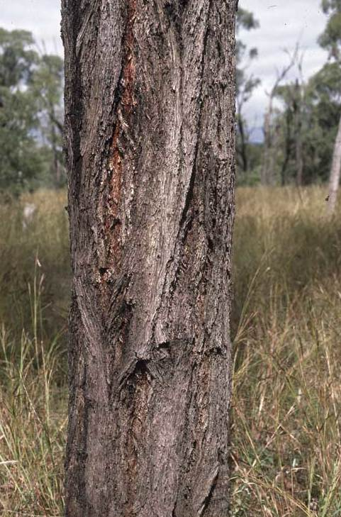 Bark of Eucalyptus quadricostata near Oakvale, Queensland